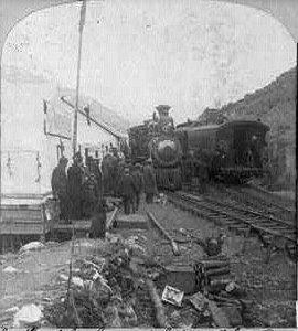 The Klondike: Summit Station - White Pass Railroad